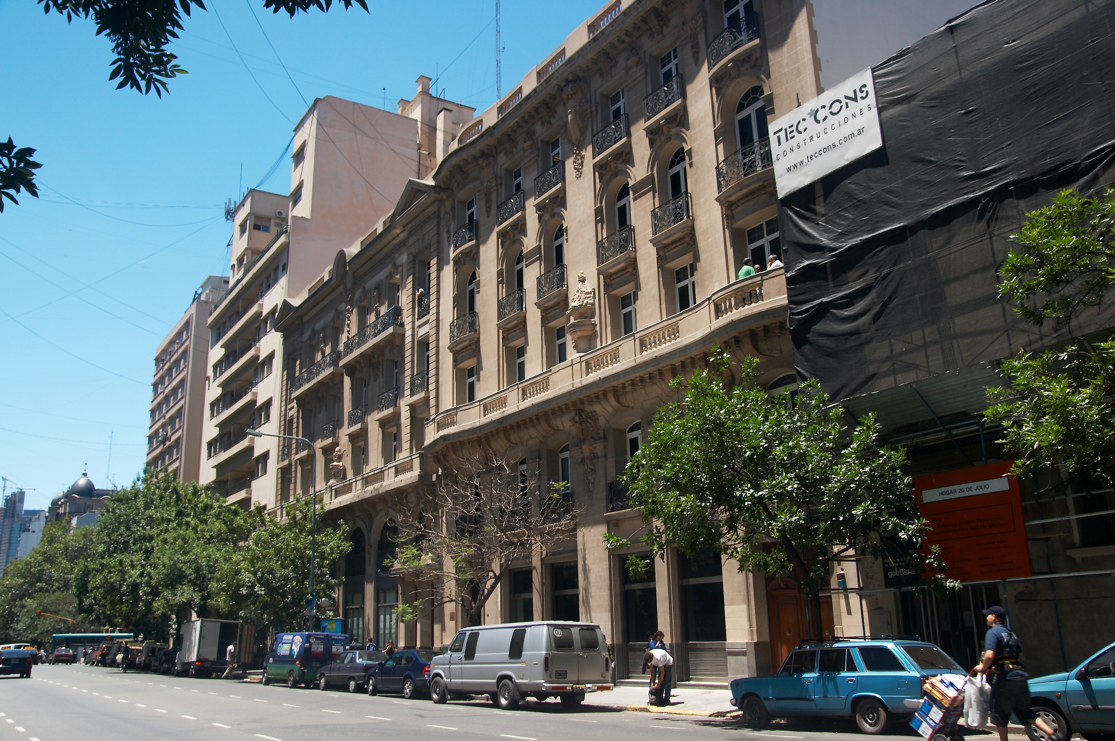 Avenida Belgrano from Defensa and Balcarce streets, Buenos Aires, Argentina.